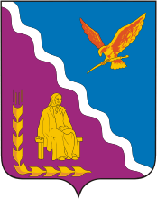 Timashyovsky District (Krasnodar krai), coat of arms